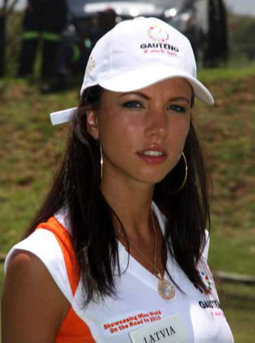 Miss Latvia 2008 Ina Avlasevika during Miss World 08